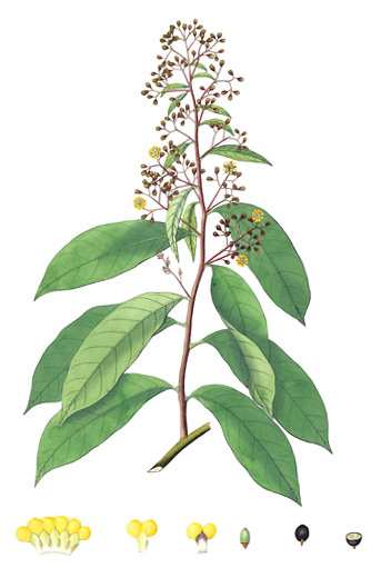 Illustration of Erycibe paniculata 159